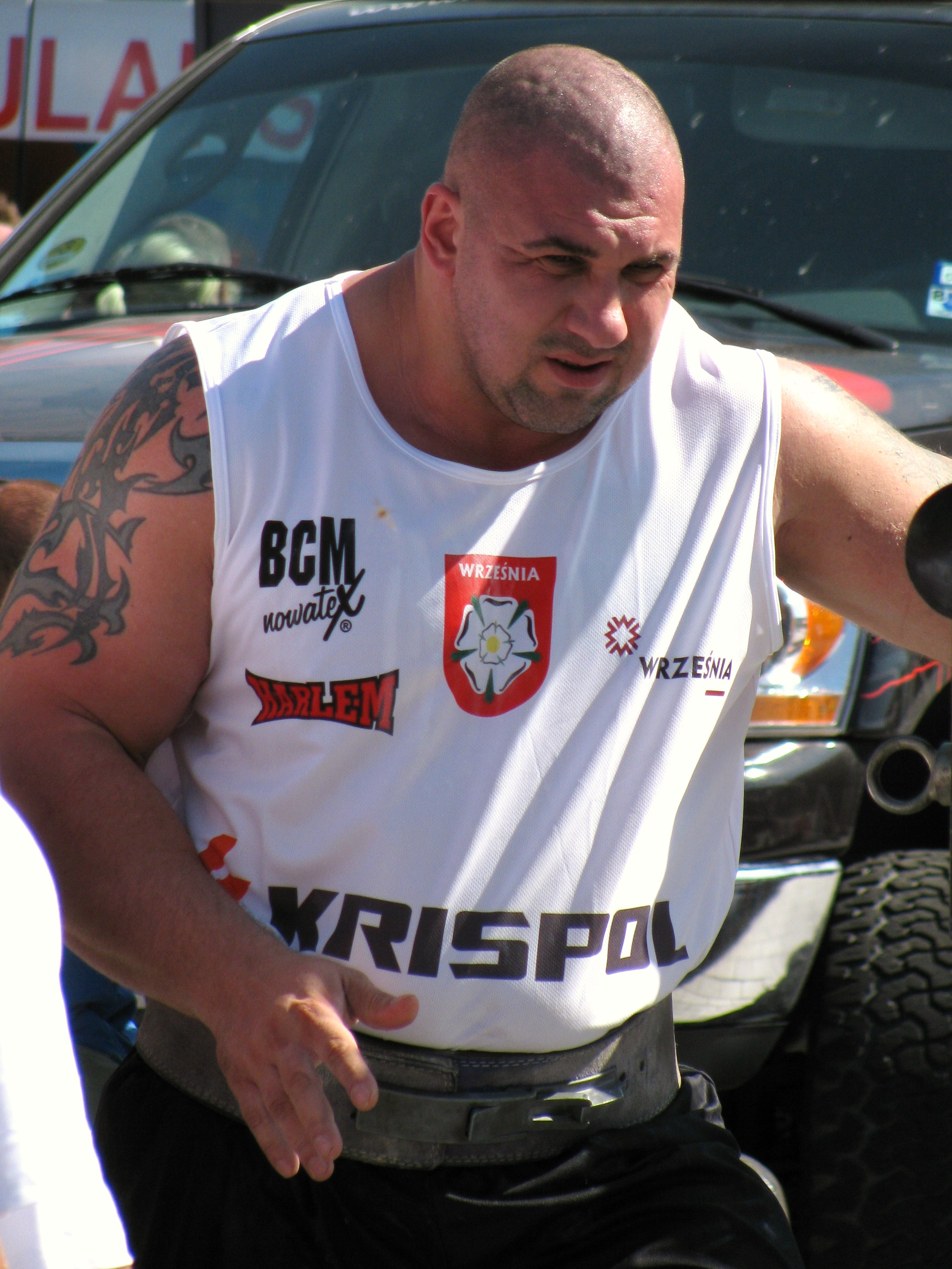 Mareks Leitis - a strength athlete from Latvia.